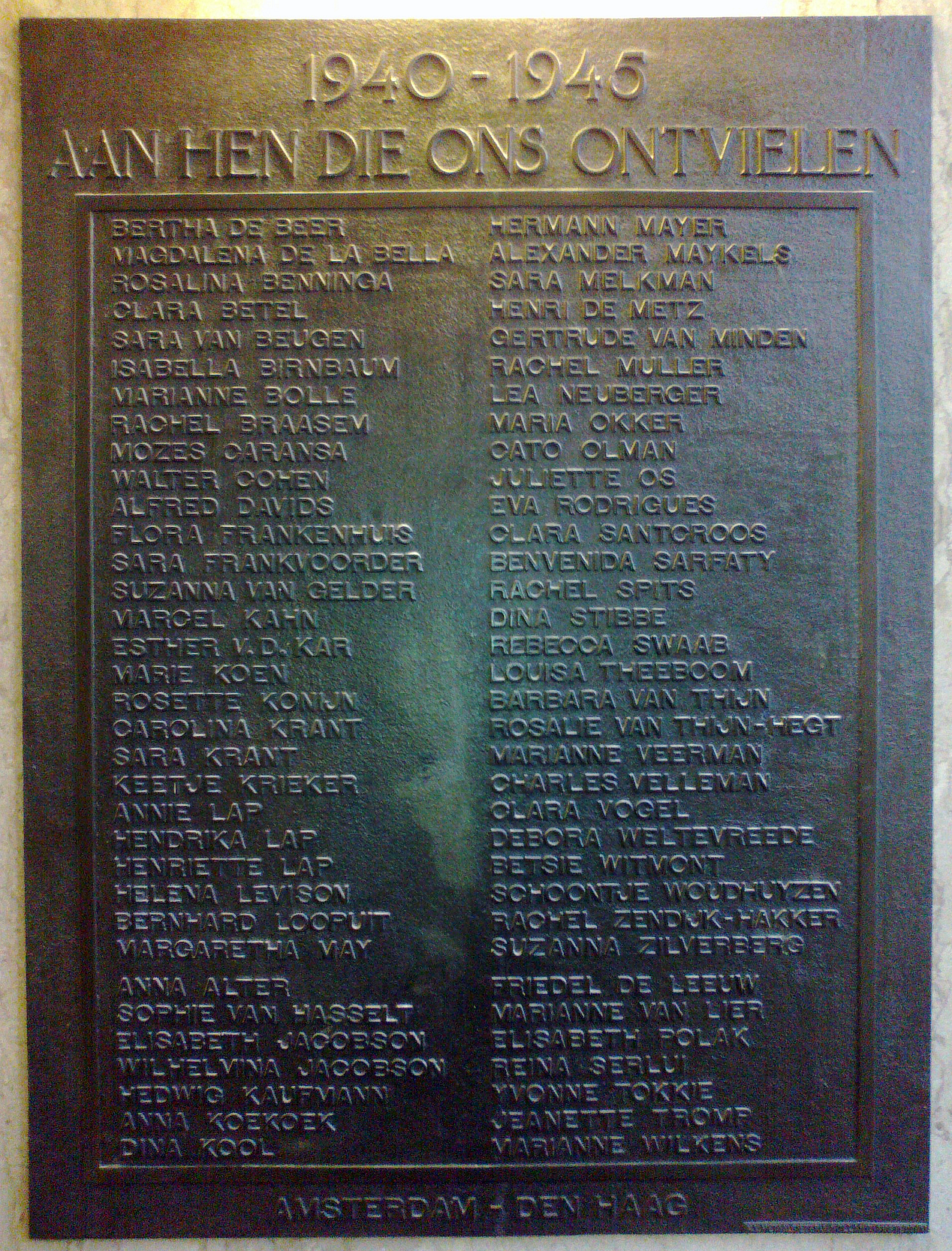 Plaque commemorating the (mostly) Jewish employees of a Dutch department store, called "Maison de Bonneterie", in The Hague, who where killed during World War Two.